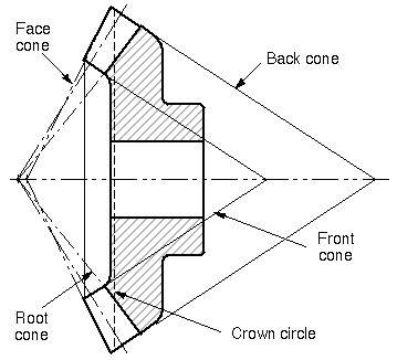 Conical surfaces